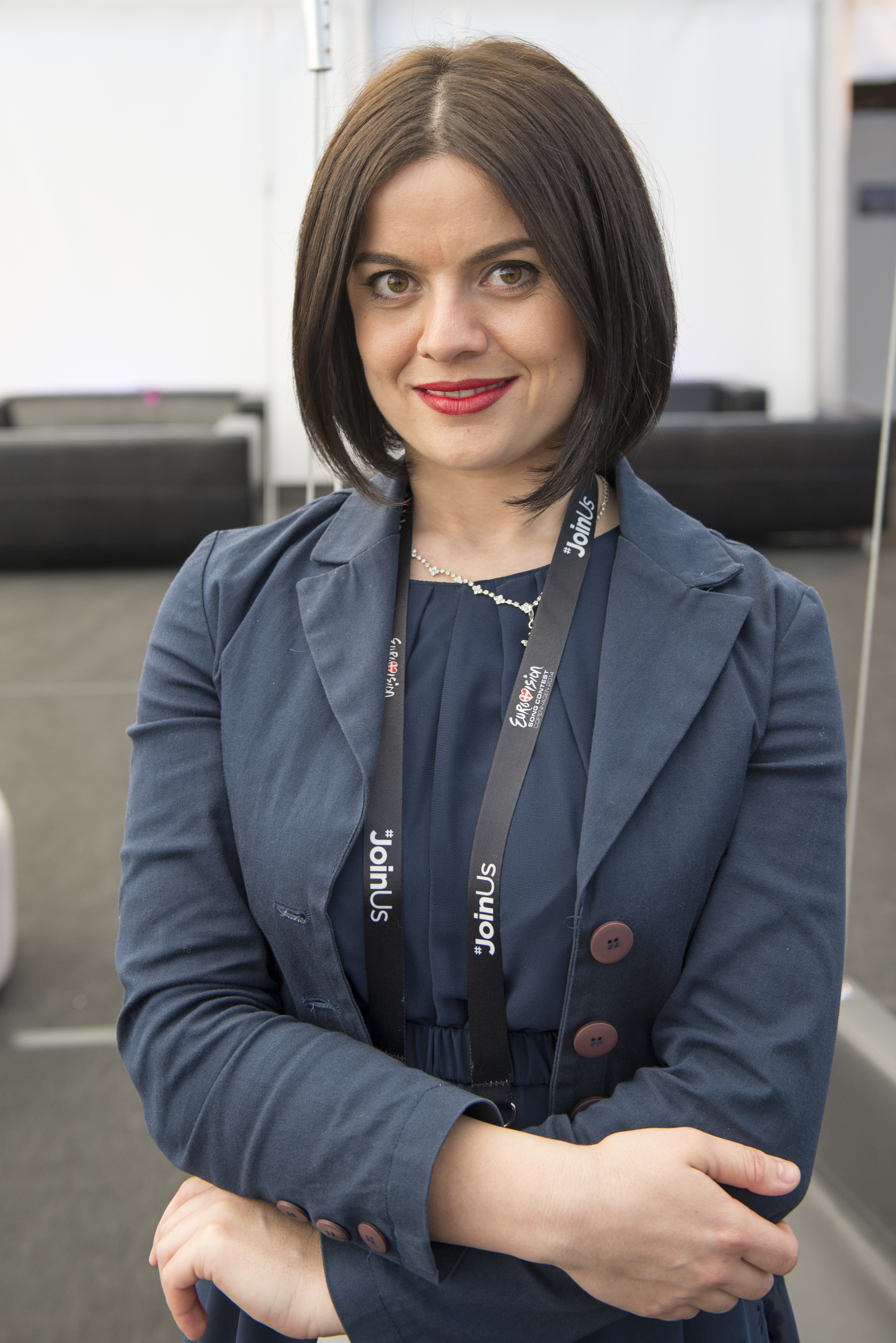 Herciana Matmuja at a Meet & Greet during the Eurovision Song Contest 2014 Copenhagen. (Help translate this text)